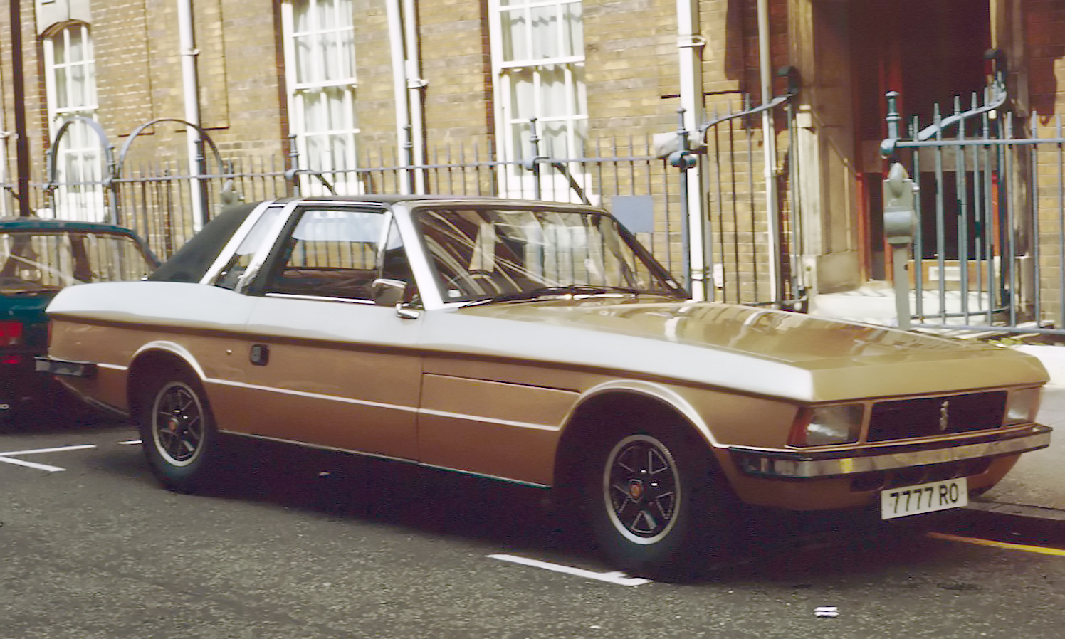 Bristol 412